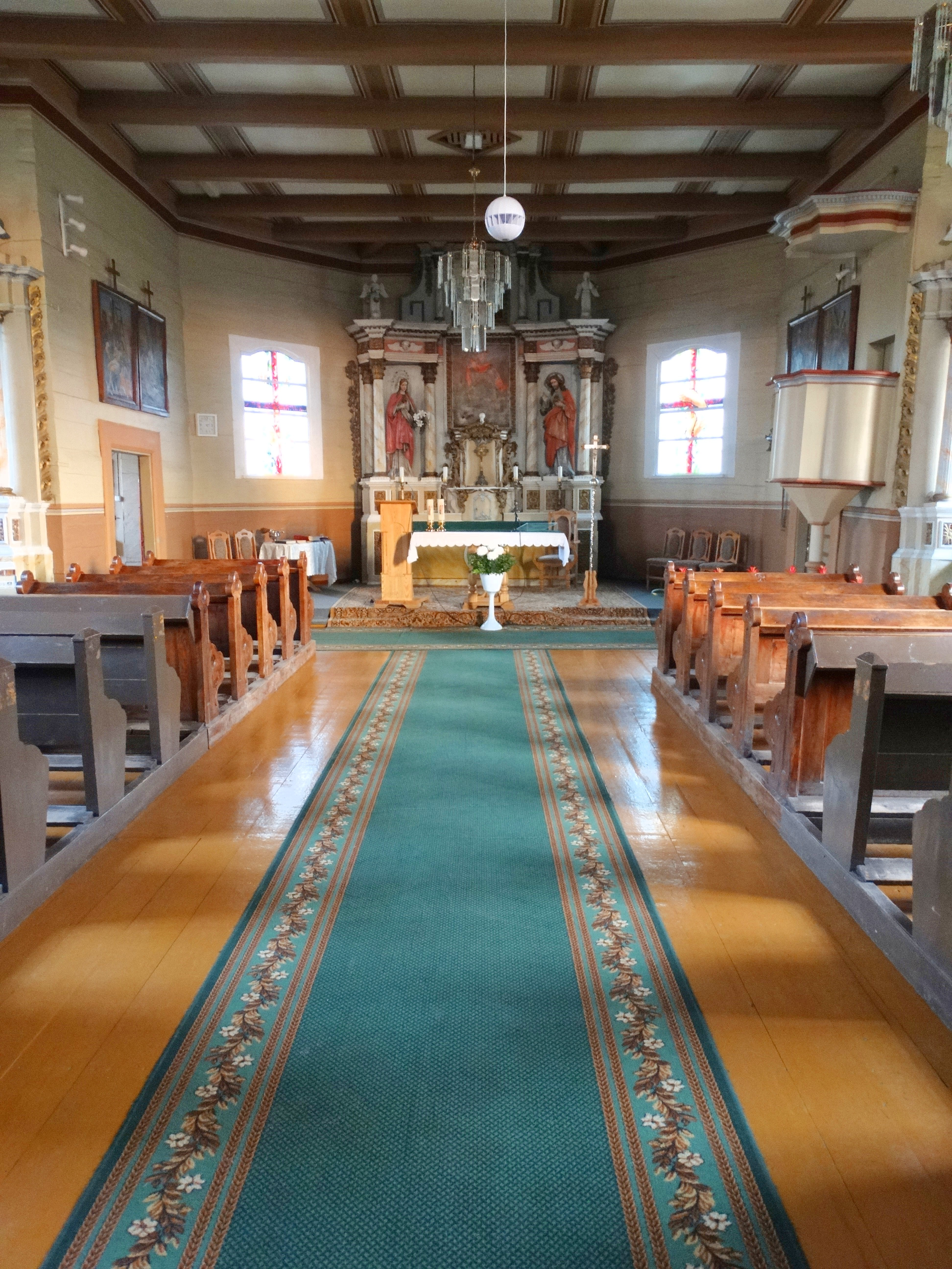 Catholic Church interior, Sartininkai, Tauragė district, Lithuania